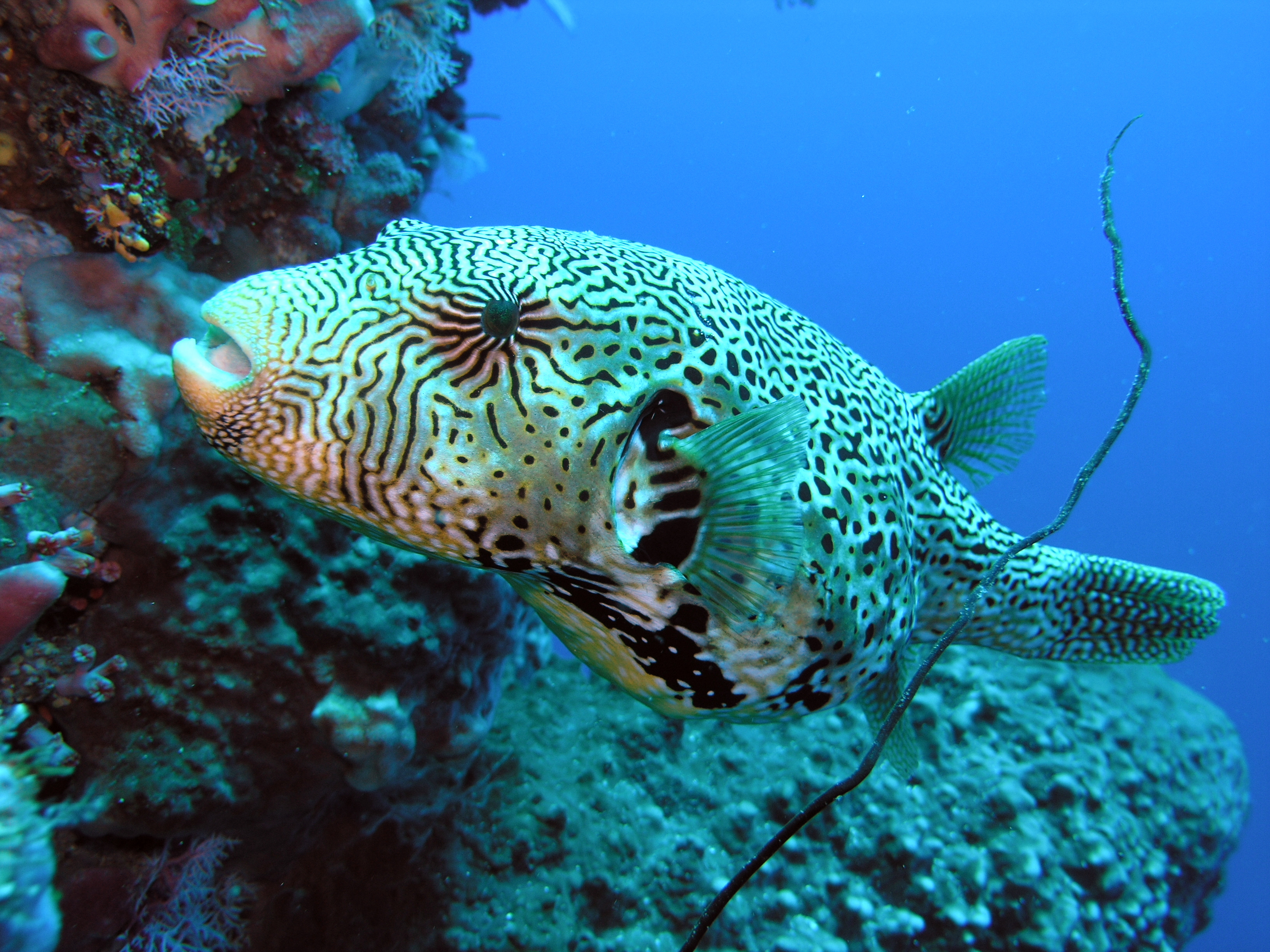 Image of a Map pufferfish. Arothron mappa. Taken at Bunaken Island, North Sulawesi, Indonesia.